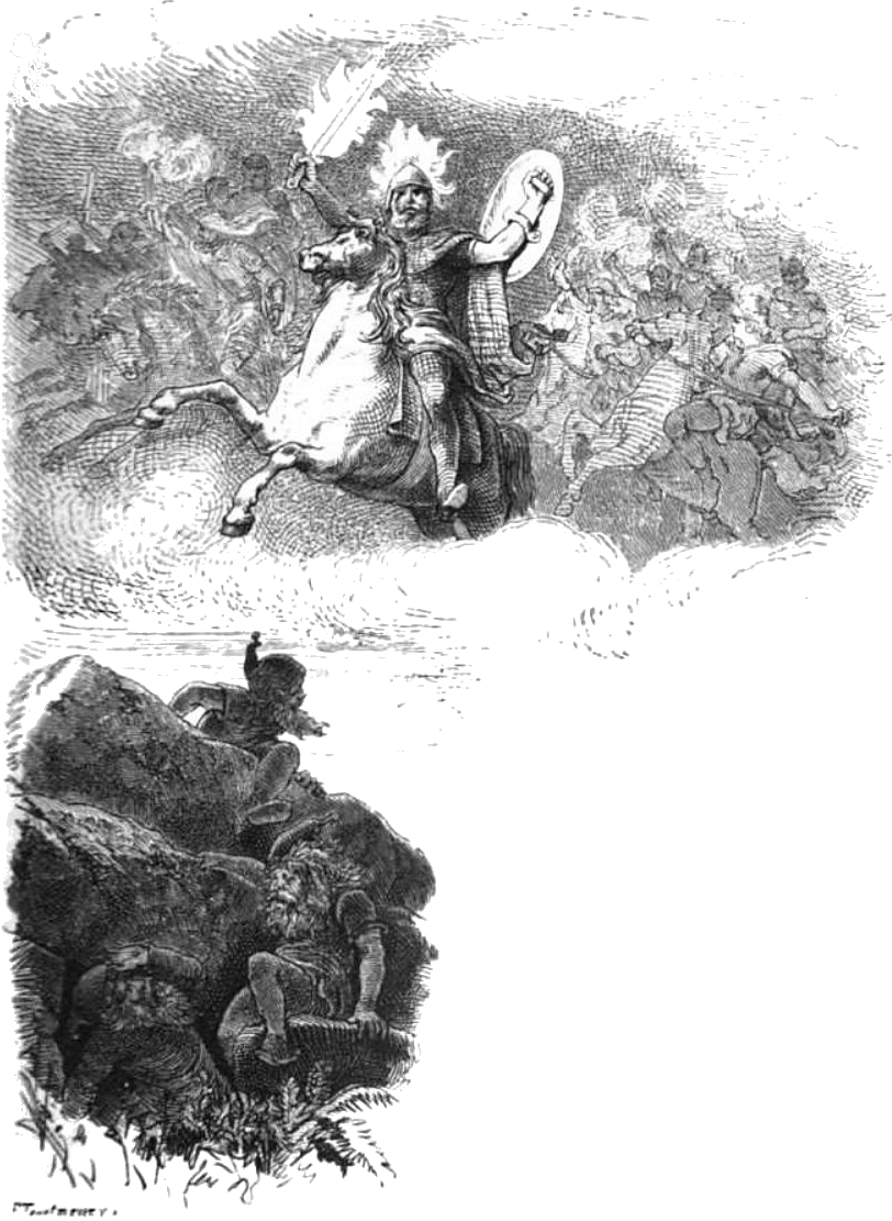 Surtur mit dem Flammenschwerte. Surtr and the Múspell host ride forth to the final battle, Surtr holding the flaming sword. The dwarves seek shelter in their rocks.